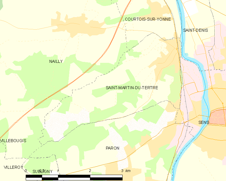 Map of French municipality Saint-Martin-du-Tertre